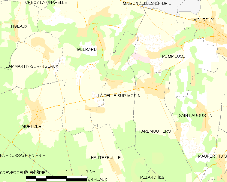 Map of French municipality La Celle-sur-Morin